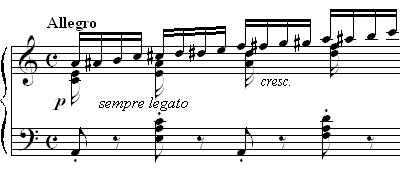 Excerpt from Chopin's Etude Op.10 No.2